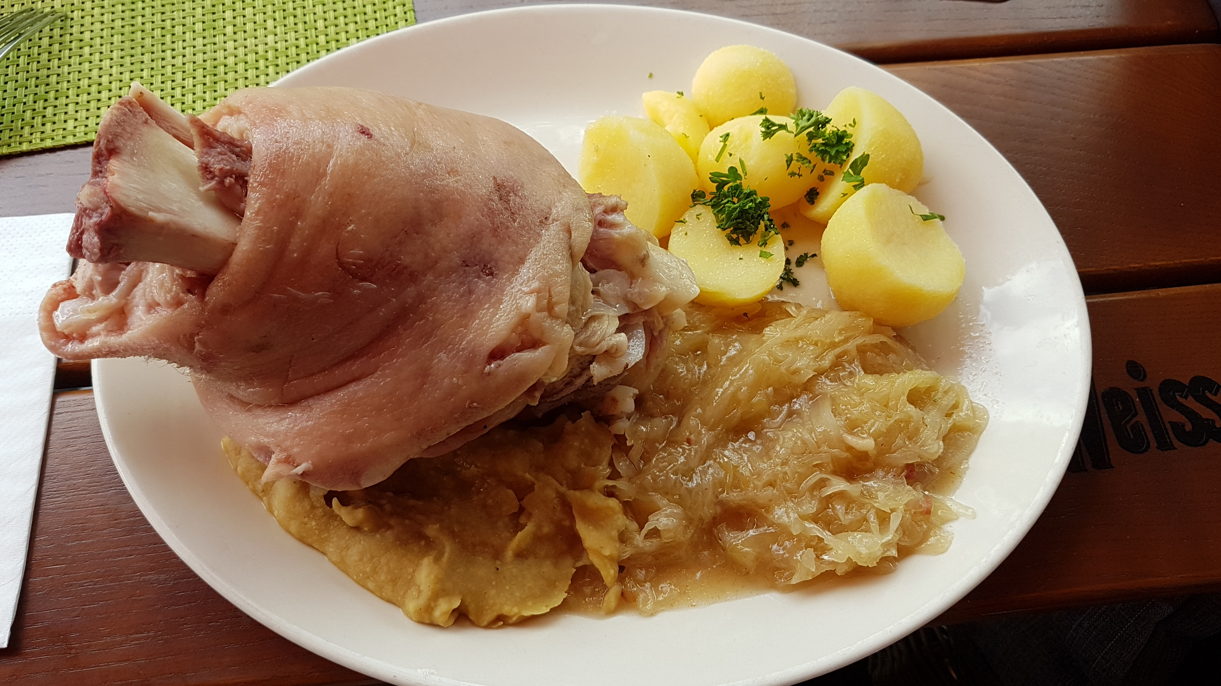 Eisbein with pea puree, Sauerkraut and potatoes, at Berlin Restaurant Haxenhaus (delicious)